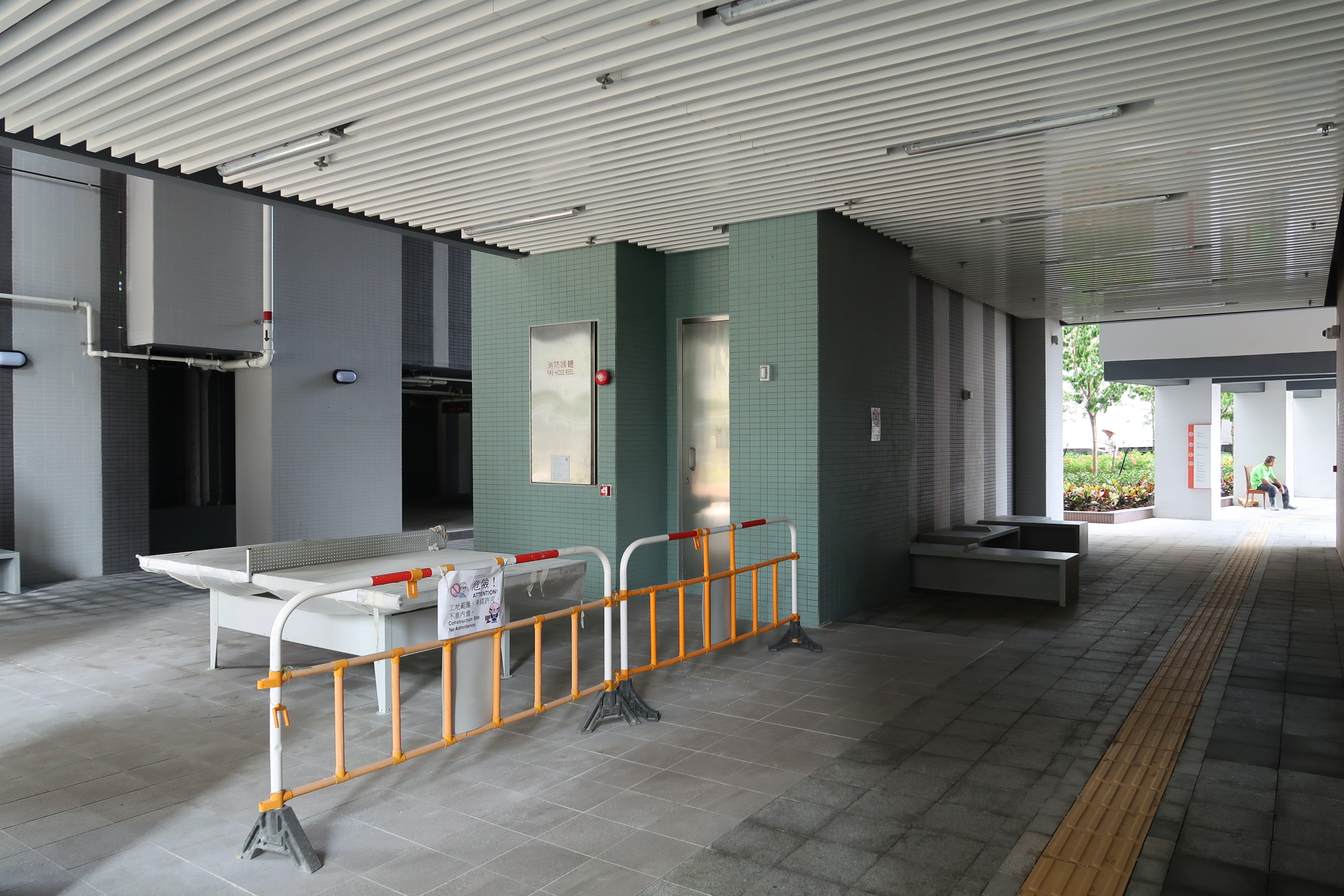 Hoi Lok Court Block E indoor space